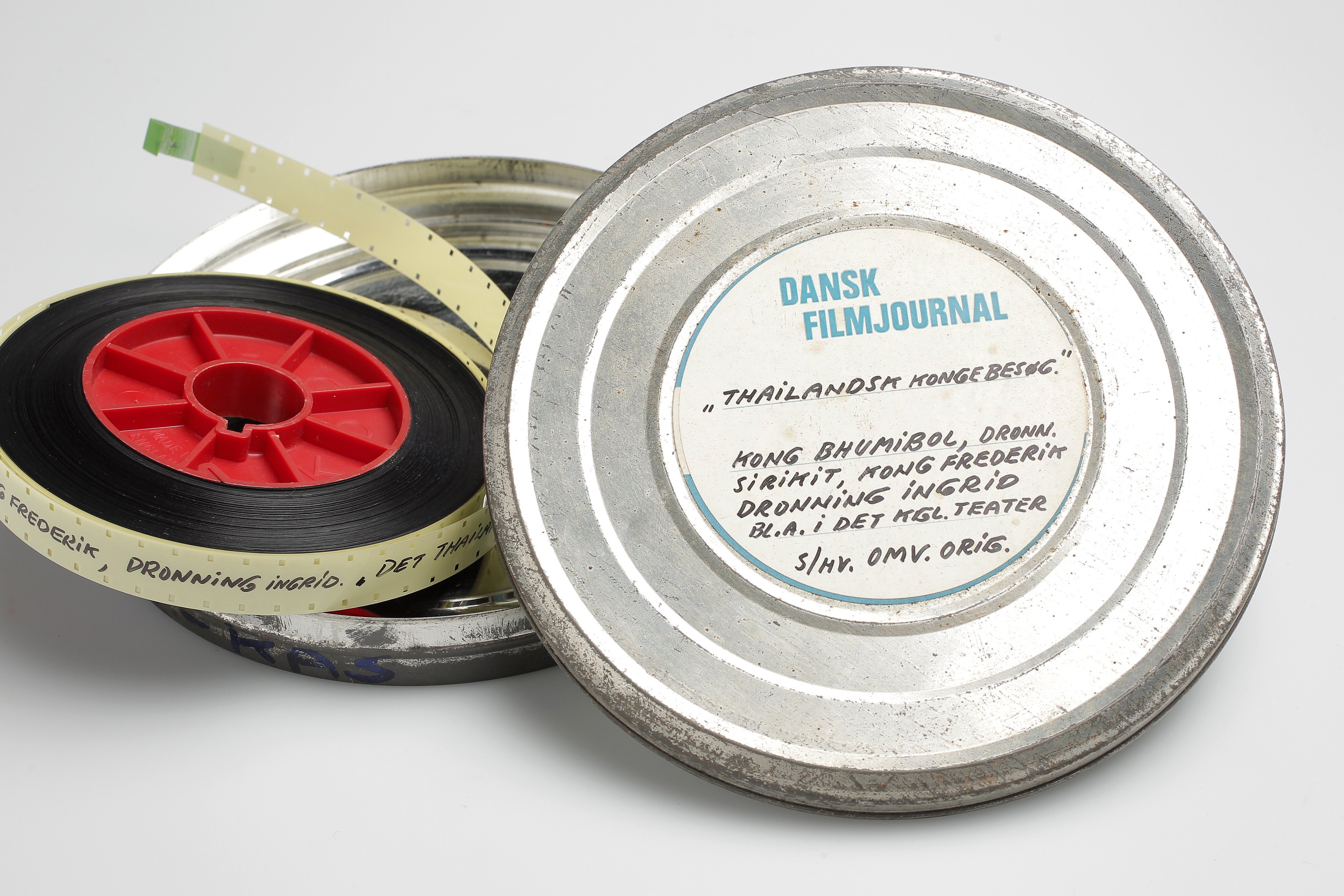 Danmarks Radios arkiv af DRs Kulturarvsprojekt / The archive of the Danish Broadcasting Corporation Photos must be credited "DRs Kulturarvsprojekt"